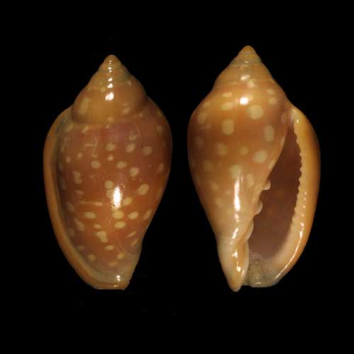 Species: Marginella sebastiani March-Marchad & Rosso, 1979 specimen: Luis Ferreira collection data: trawled by Portuguese shrimper (1994) off Guiné-Bissau L 55.0 mm